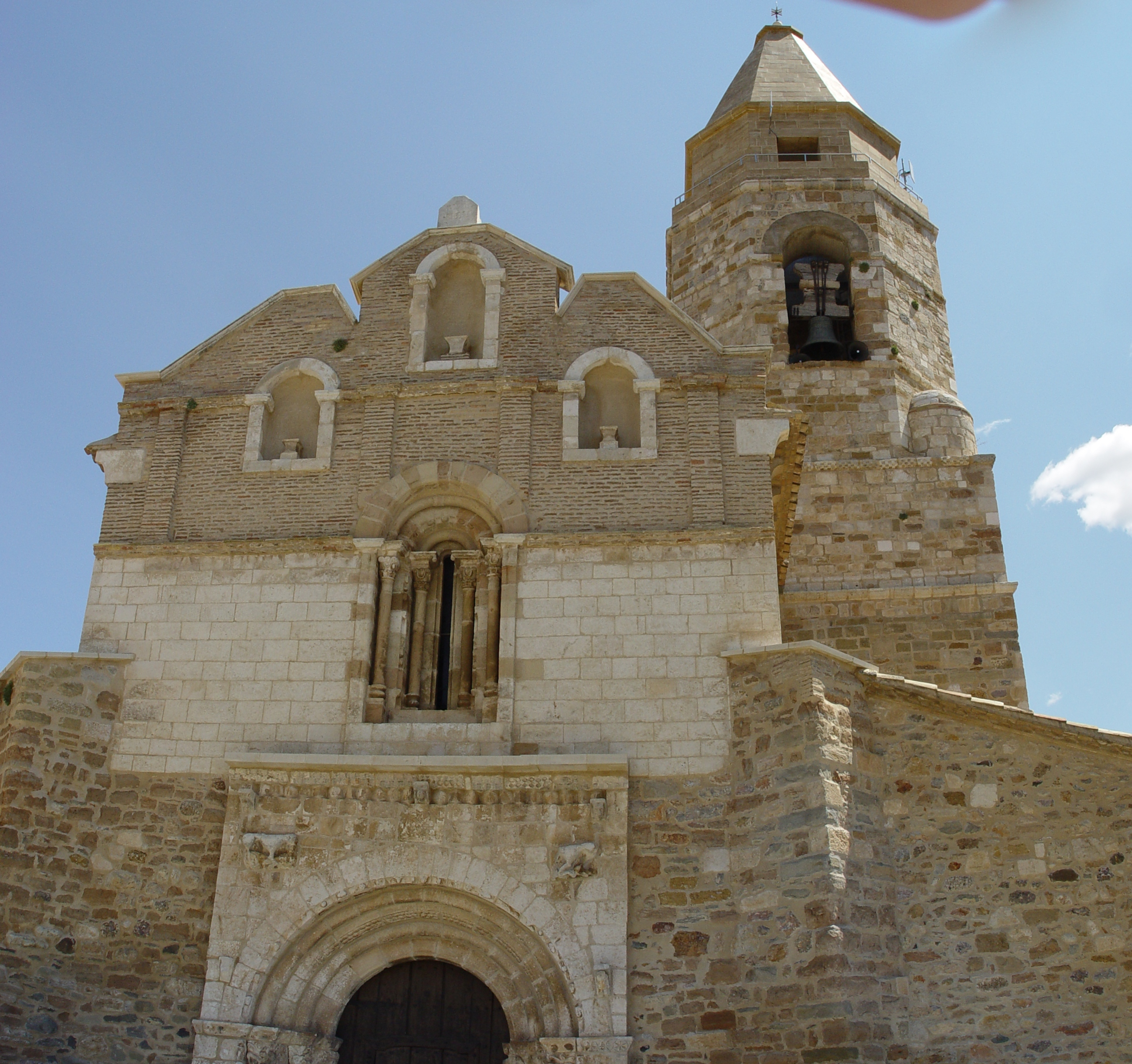 Església de Nostra Senyora del Puig de Tolba